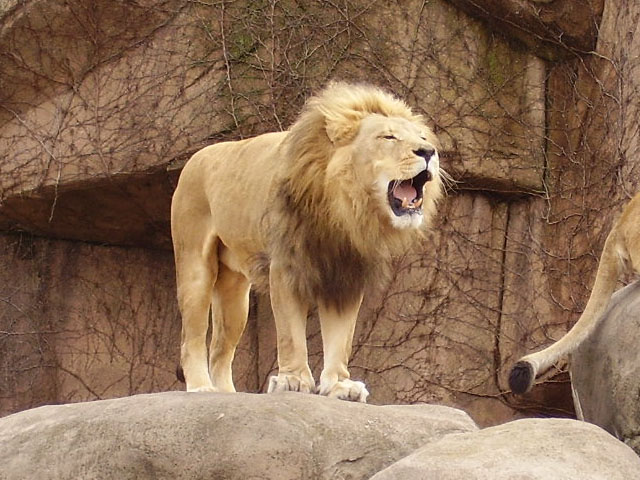 A photo I took of a lion at the Lincoln Park Zoo.